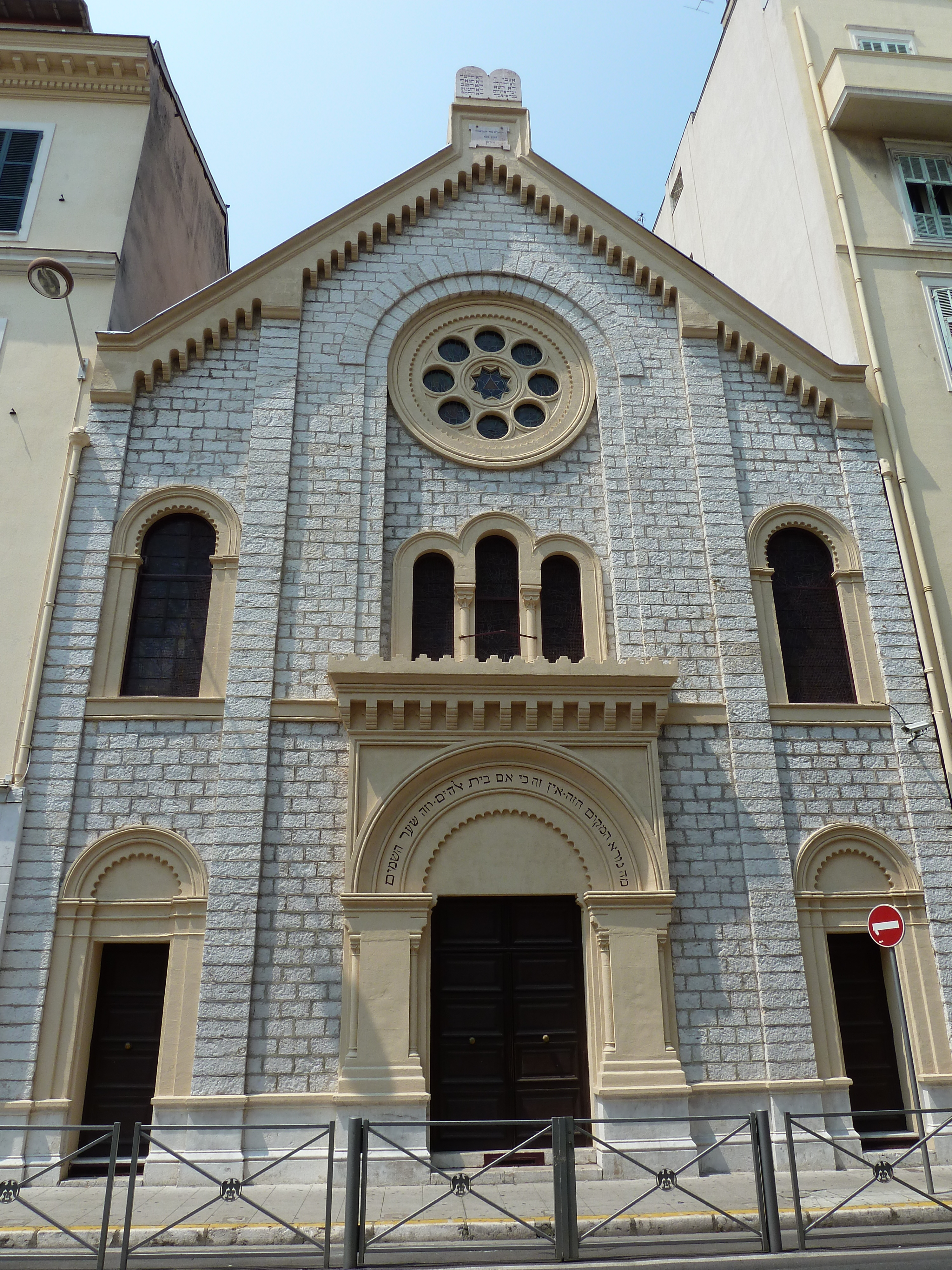 Synagogue of Nice